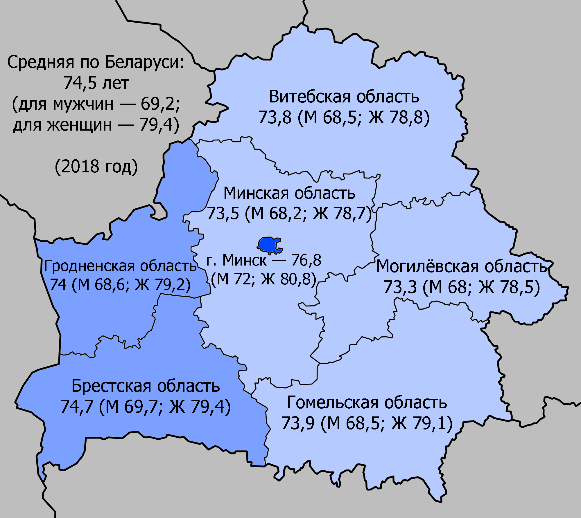 Average life expectancy at birth in Belarus (2018)